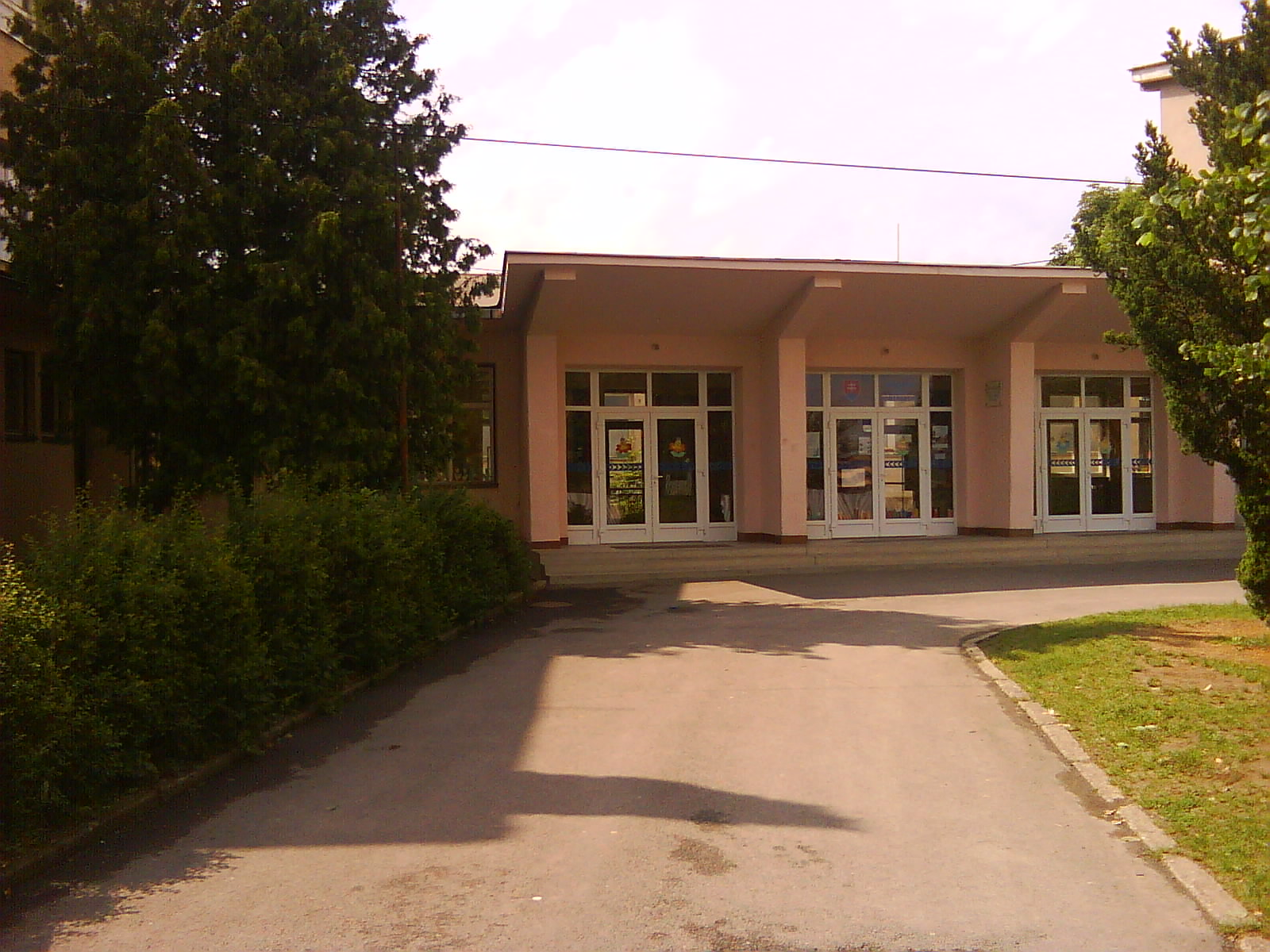 Elementary School Komenskeho in Sečovce.